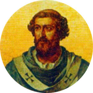 Portait of Pope Honorius I in the Basilica of Saint Paul Outside the Walls, Rome